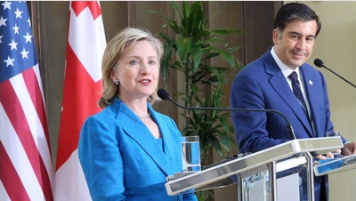 Secretary Clinton and President of Georgia Saakashvili at Press Conference in Tbilisi. July 5, 2010